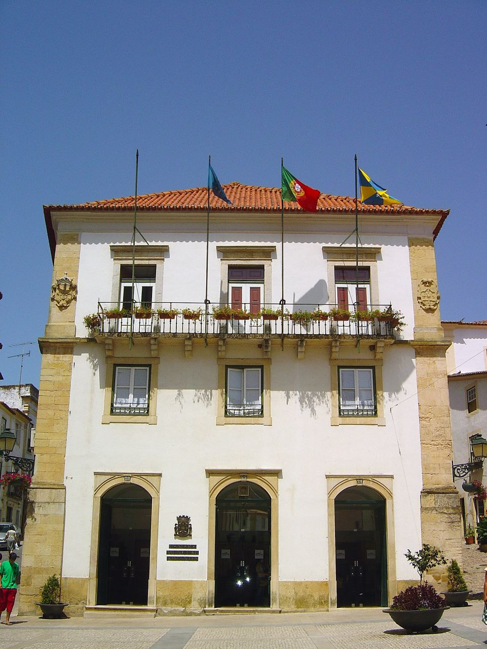 See where this picture was taken. [?]